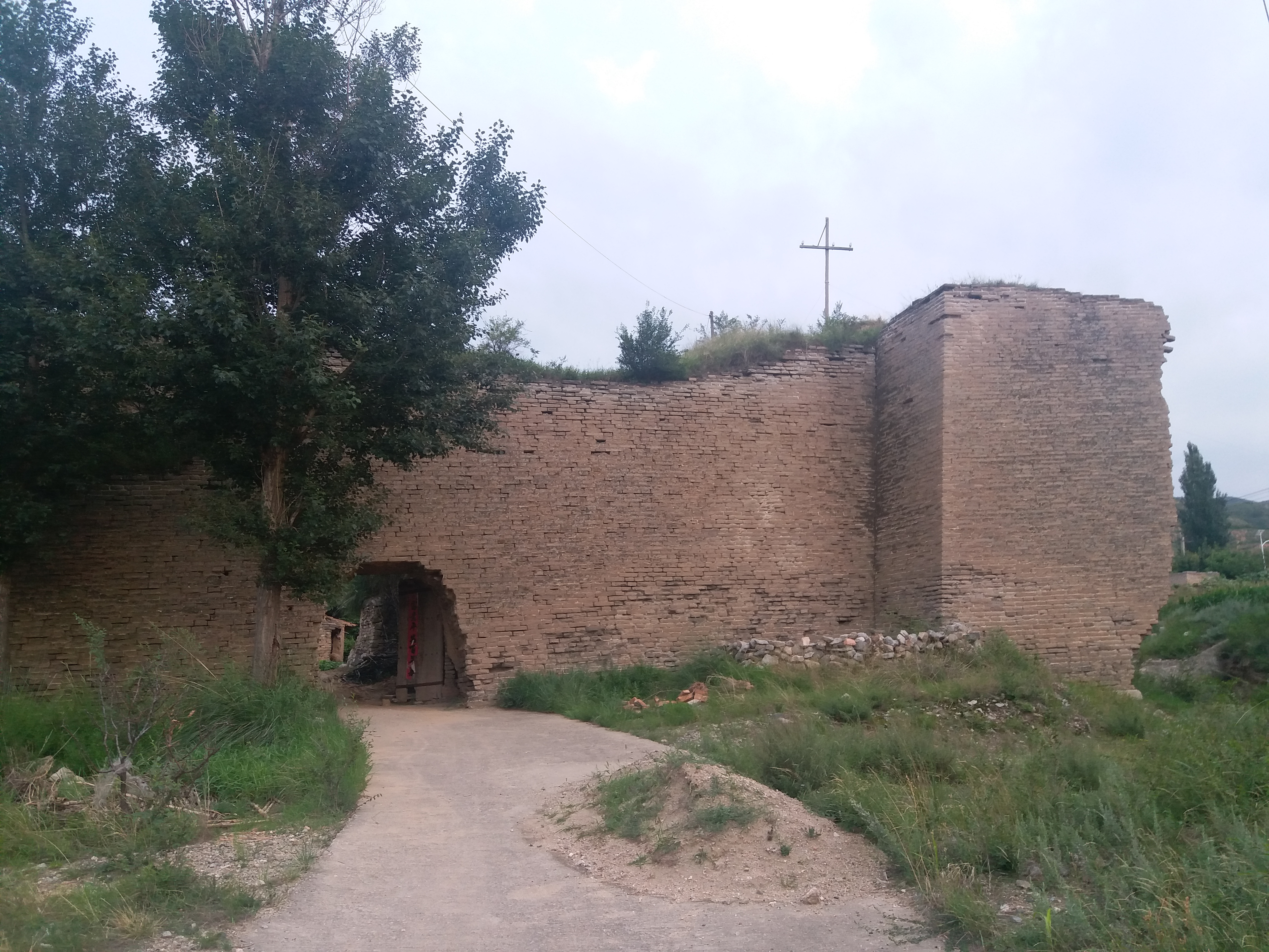 Remnants of fortifications where New Guangwu village is located but outside of the main area of the village